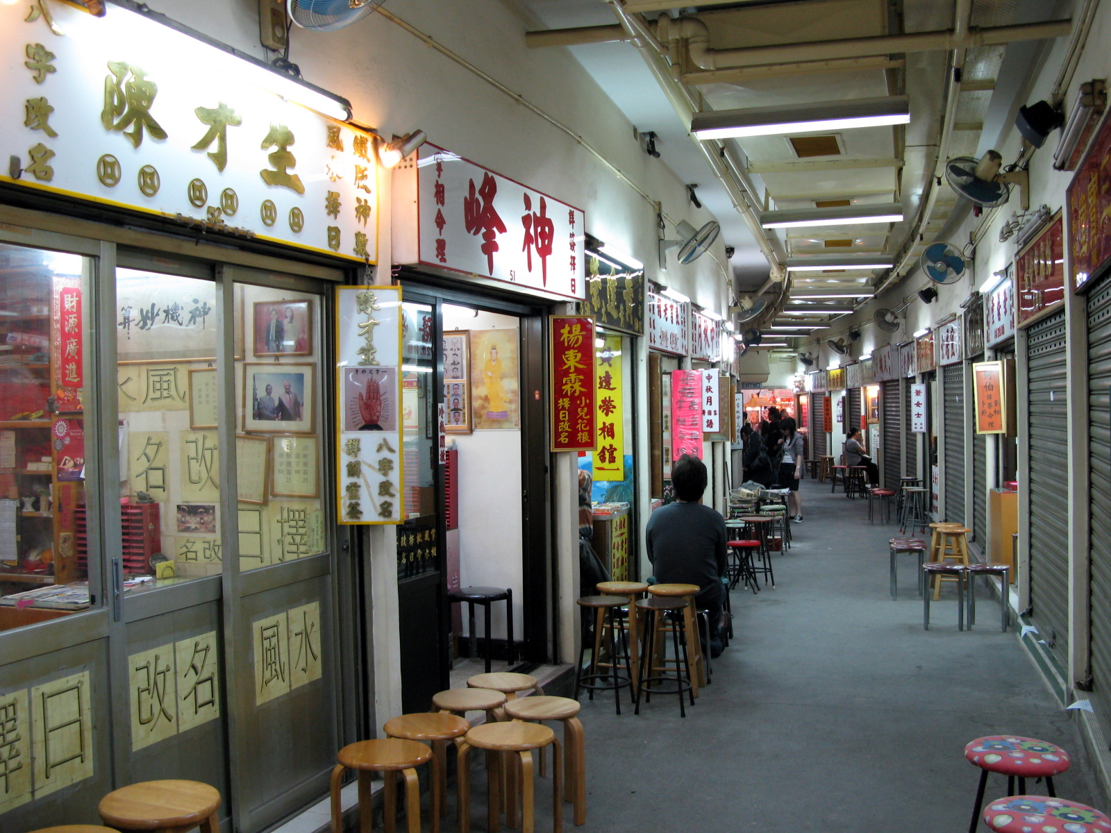 TWGHs Wong Tai Sin Fortune Telling & Oblation Arcade